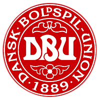 Logo of Dansk Boldspil-Union, designed by Thorvald Bindesbøll.